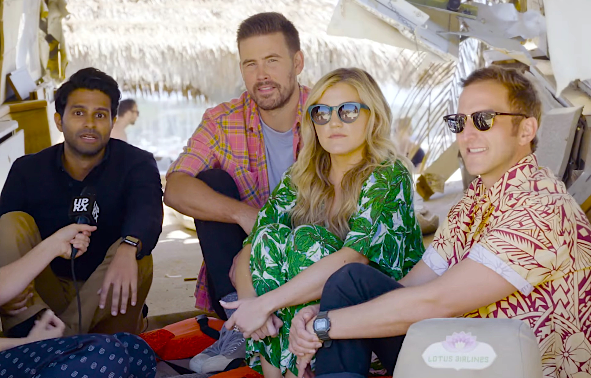 UPROXX Interviews the Cast of TBS's Wrecked Left to right: Asif Ali, Zach Cregger, Jessica Lowe, Will Greenberg. Here's how the cast of Wrecked turns cannibalism into laughs and tune-in tonight for the premiere of Wrecked at 10PM EST on TBS. #Wrecked #WreckedIsland Made possible by TBS. Check out more of UPROXX here: UPROXX: The premier news and culture platform for the digital generation. News, sports, music, and entertainment with a connection you won't find anywhere else.